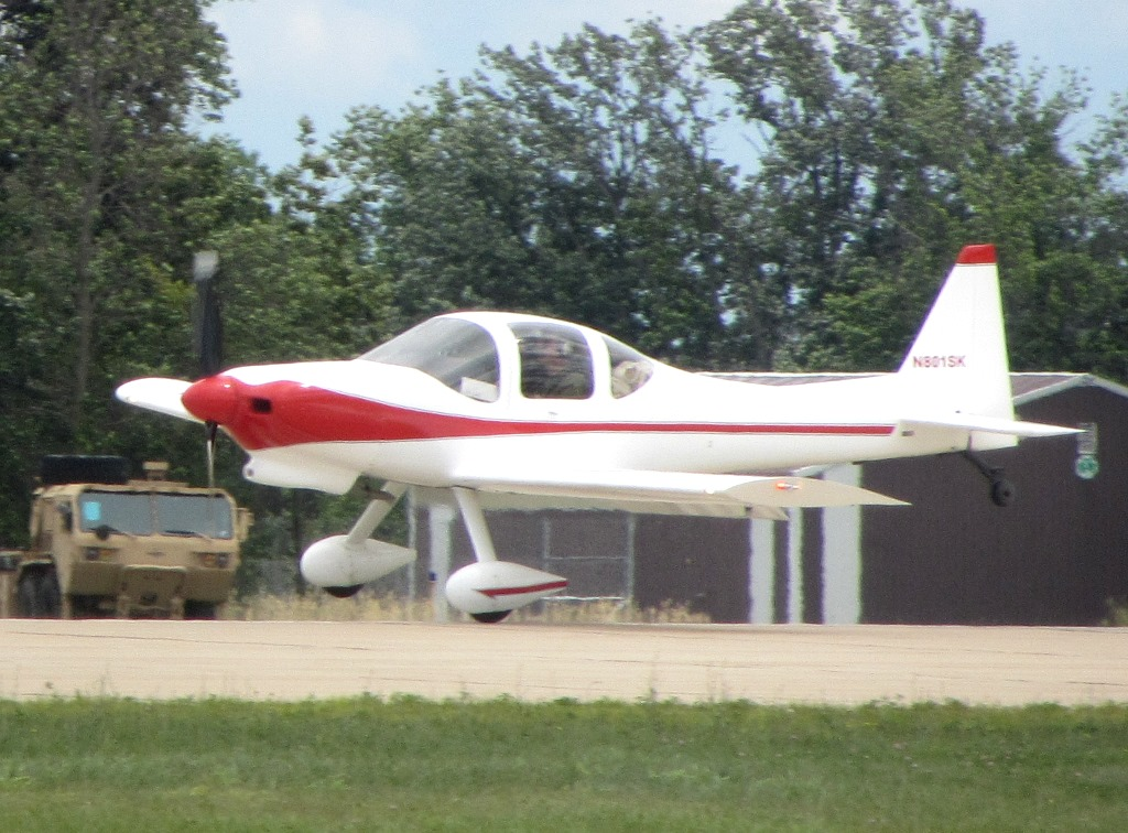 Tri-R KIS